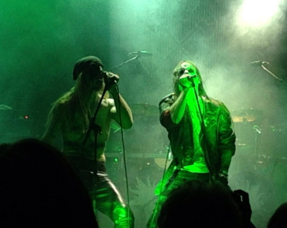 Hoest, lead vocalist of Taake, performing live on Inferno Festival (2013) with Jørn Inge Tunsberg of Hades Almighty.